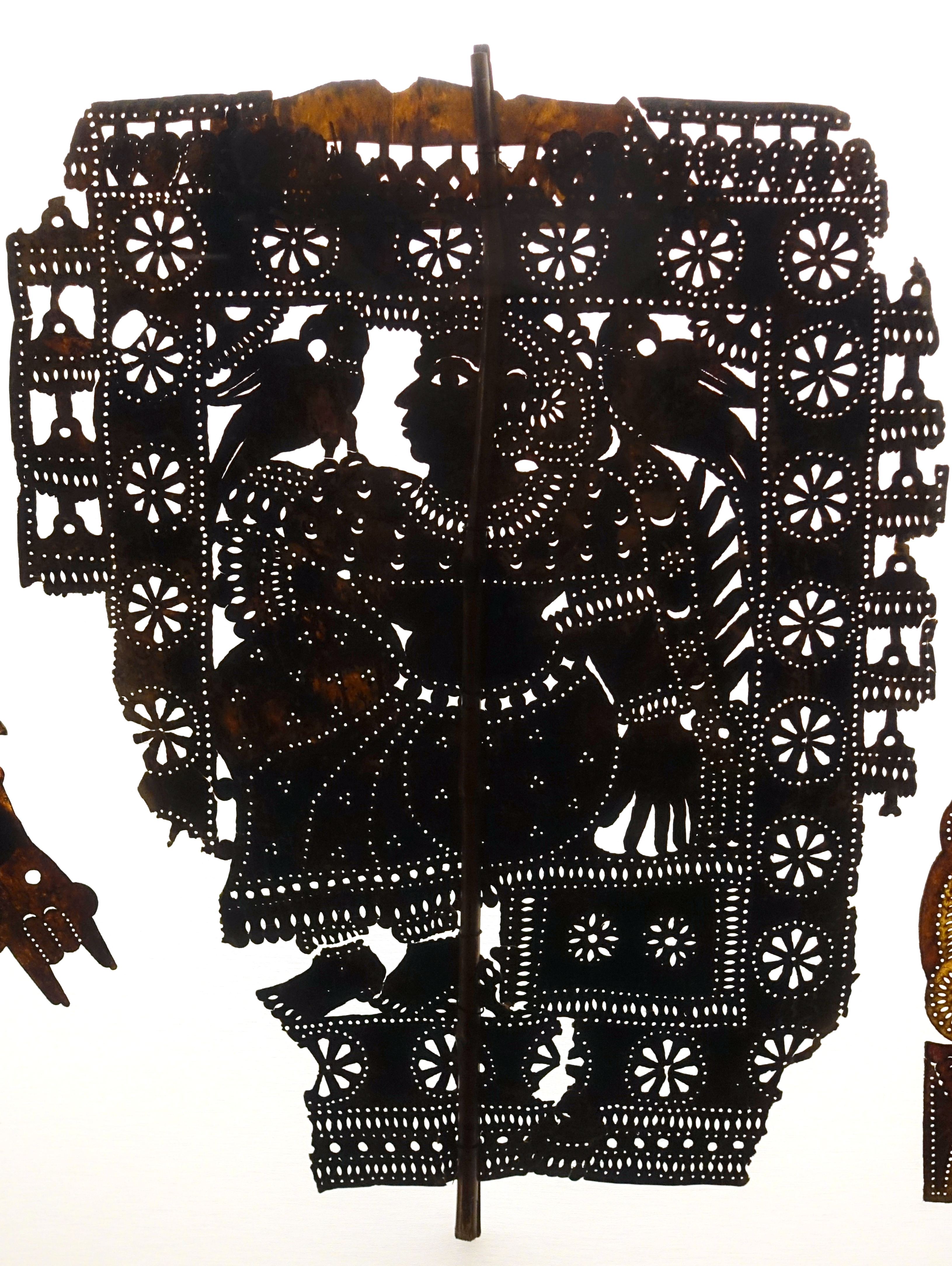 Exhibit in the Museu do Oriente - Lisbon, Portugal. This work is old enough so that it is in the public domain.